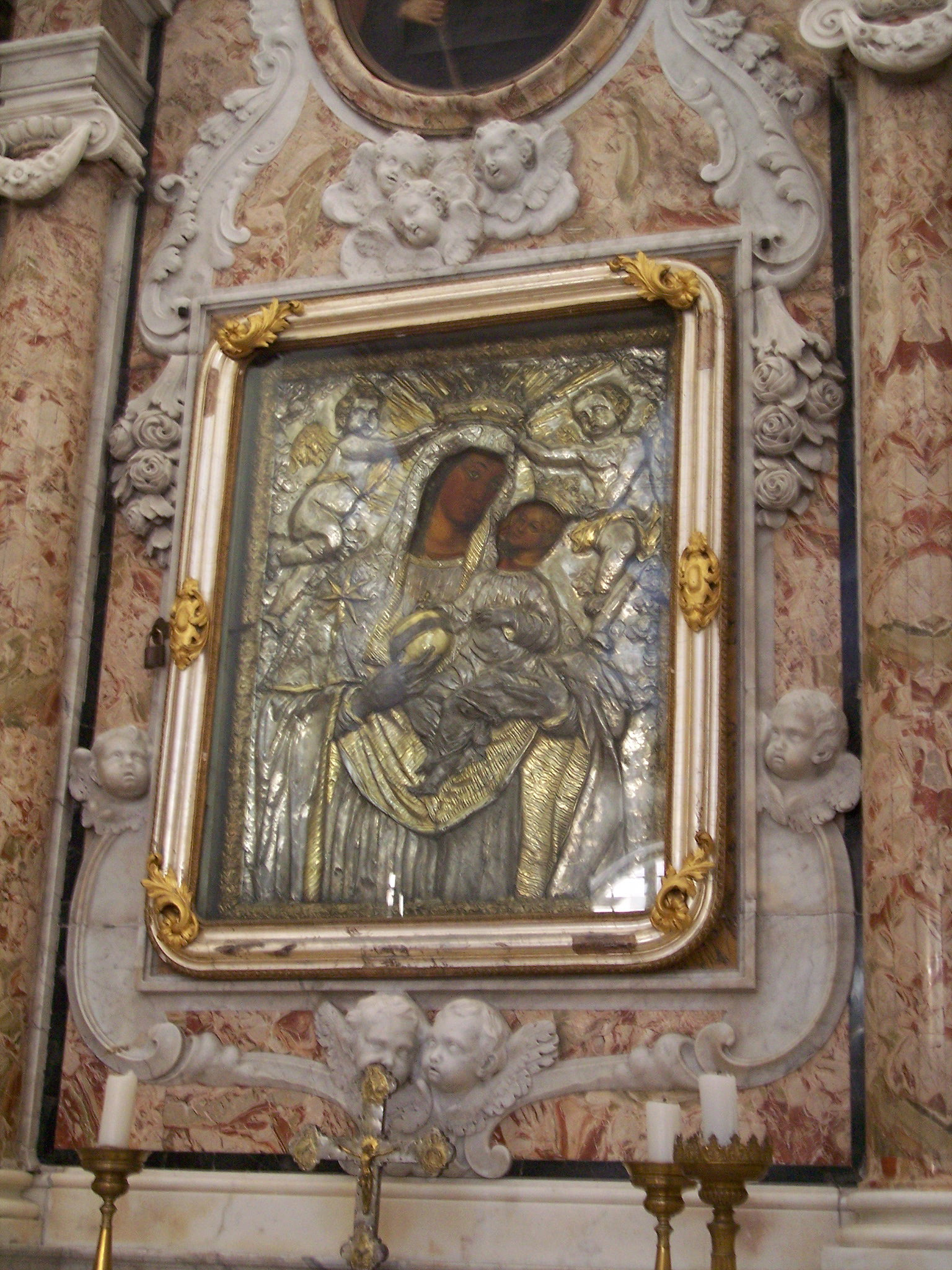 Cathedral of the Assumption of the Virgin Mary (or Velika Gospa) in Dubrovnik (Croatia)